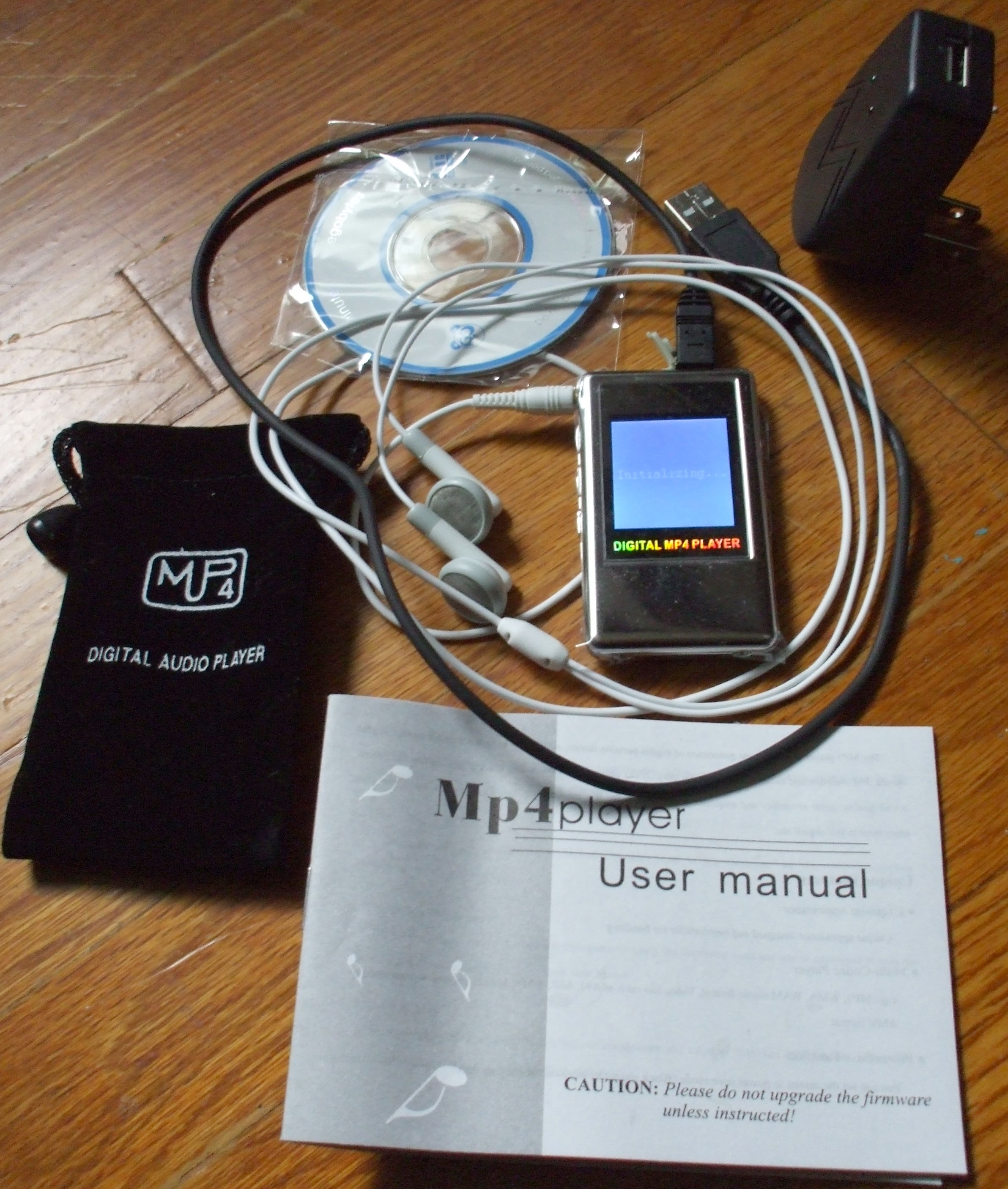 2007-04-30 16:21 Neskfog 2384×2812×8 (789983 bytes) made it myself from a mp4 player i purchase from ebay